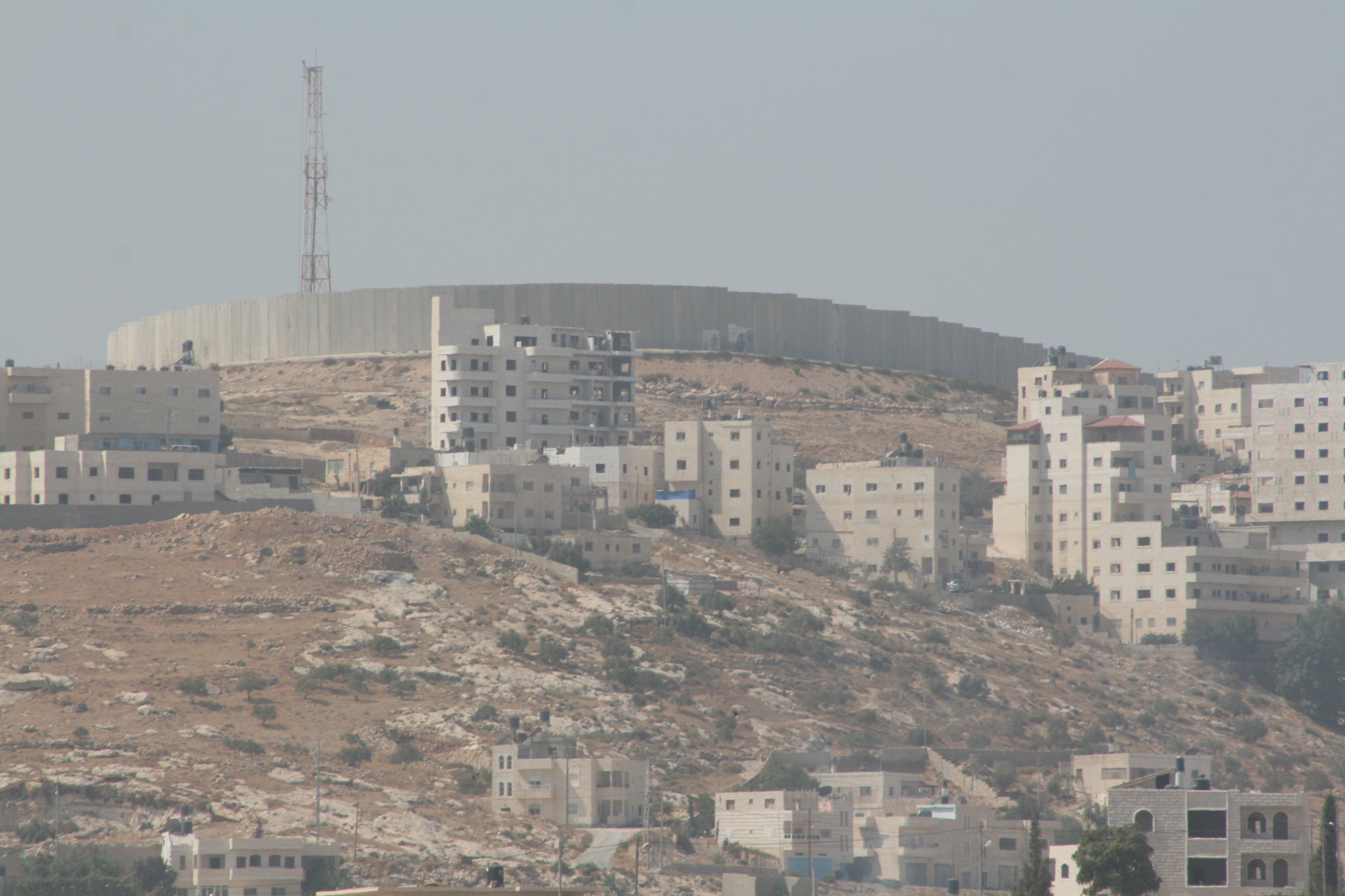 Jerusalem, Israeli West Bank Barrier near Sawahera al-Sharqiya